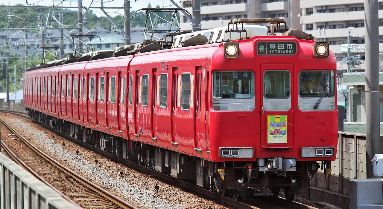 Meitetsu 200 series EMU (215F at Miyoshigaoka Station)